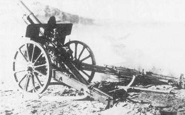 Type 91 10cm Howitzer Introduced Year : 1931 Caliber : 105 mm Barrel Length : 2.09 m (L20) EL Angle of Fire : -5 to +43 Degrees AZ Angle of Fire : 40 Degrees Shell Weight : 15.76 Kg Muzzle Velocity : 454 m/sec Weight : 1.5 ton, 1.75 ton (Motorized Model) Range : 10,800 m Production Qty : 1,100 Type 91 was the division level artillery. The field artillery regiment of the division was usually equipped with Type 91 Howitzers and 75mm field guns.